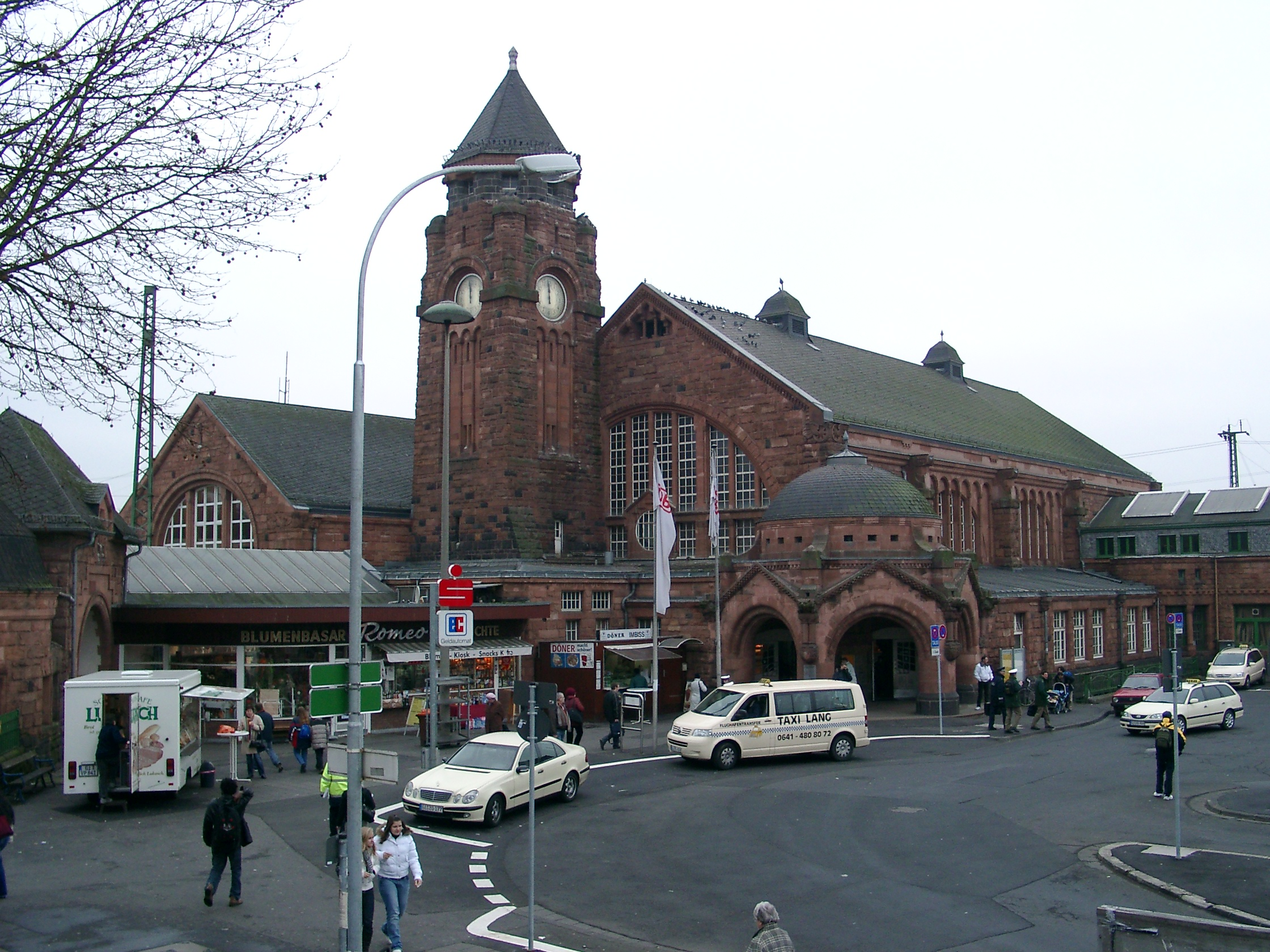 Central station of Giessen,Hessen